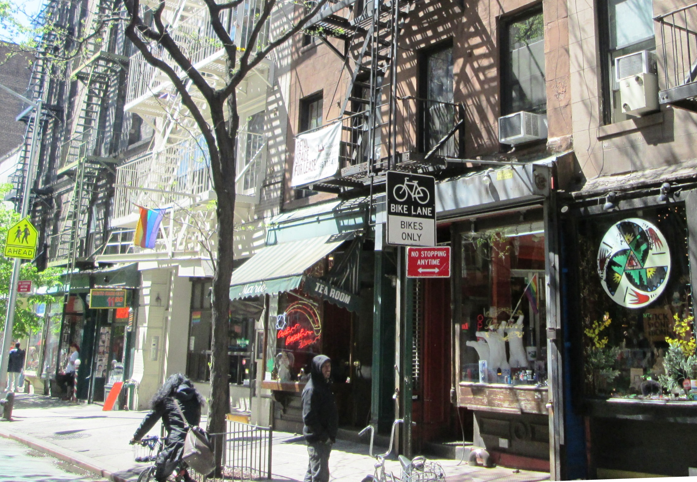 Shops along Christopher Street between Bleecker and Hudson Streets in the Greenwich Village neighborhood of Manhattan, New York City. Note the Gay pride flag on one of the shops.